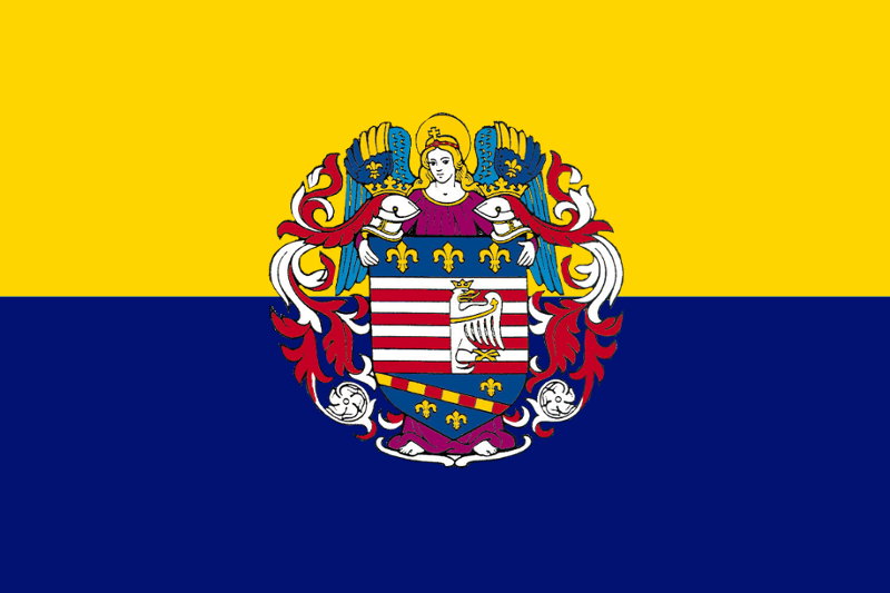 Flag of Košice in Slovakia.